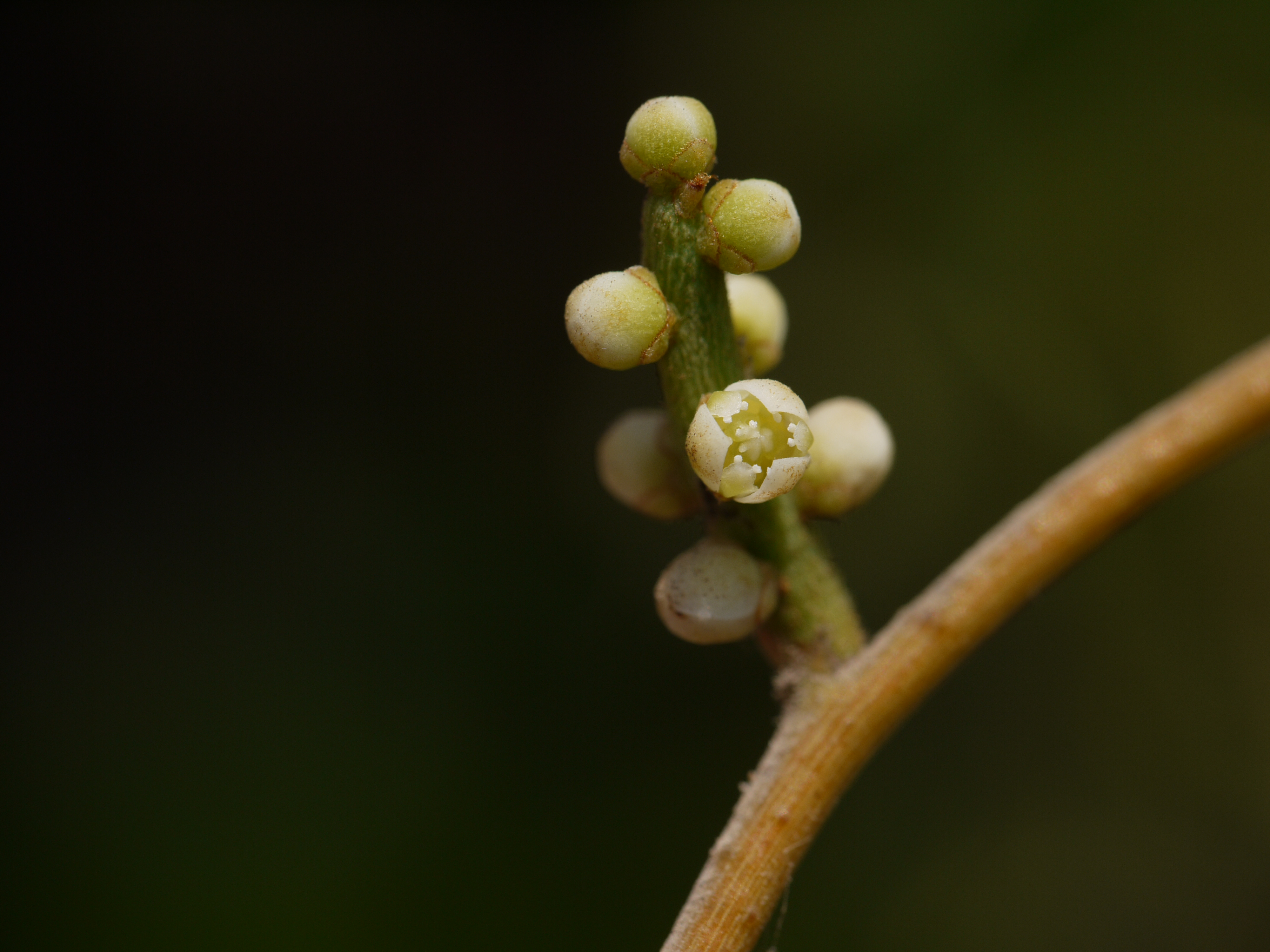 Lauraceae (laurel family) » Cassytha filiformis kas-SITH-ee-a -- from the Greek word kassyo (sew, patch) fil-ih-FOR-miss -- meaning, threadlike commonly known as: air creeper, devil's gut, dodder-laurel, green thread creeper, love vine, moss creeper, princess hair, Sita's yarn, woe-wine • Hindi: आकास बेल akas bel • Kannada: ಆಕಾಶ ಬಳ್ಳೀ aakaasha balli, ಅಮರ ಬಳ್ಳಿ amara balli, ಬೀಳು ಬಳ್ಳಿ bilu balli, ದಾರದ ಬಳ್ಳಿ daarada balli, ಜನಿವಾರ ಬಳ್ಳಿ janivaara balli, ಮಮ್ಗನ ಉಡಿದಾರ mamgana udidaara • Konkani: आंकासवेल ankasvel • Marathi: अमरवेल amarvel, अंबरवेल ambarvel • Oriya: akashavuli • Sanskrit: आकासवल्ली akasavalli • Tamil: எருமைக்கொற்றான் erumai-k-korran, தூற்றுமைக்கொற்றான் turrumai-k-korran, பசுங்கொற்றான் pacu-n-korran • Telugu: ఆకాశవల్లి akasa-valli • Urdu: آکاس بيل akas bel Distribution: pantropic References: Flowers of India • Dave's Garden • eFlora • GRIN • FRLHT